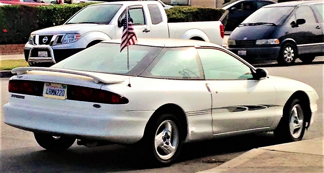 Second generation Ford Probe coupe